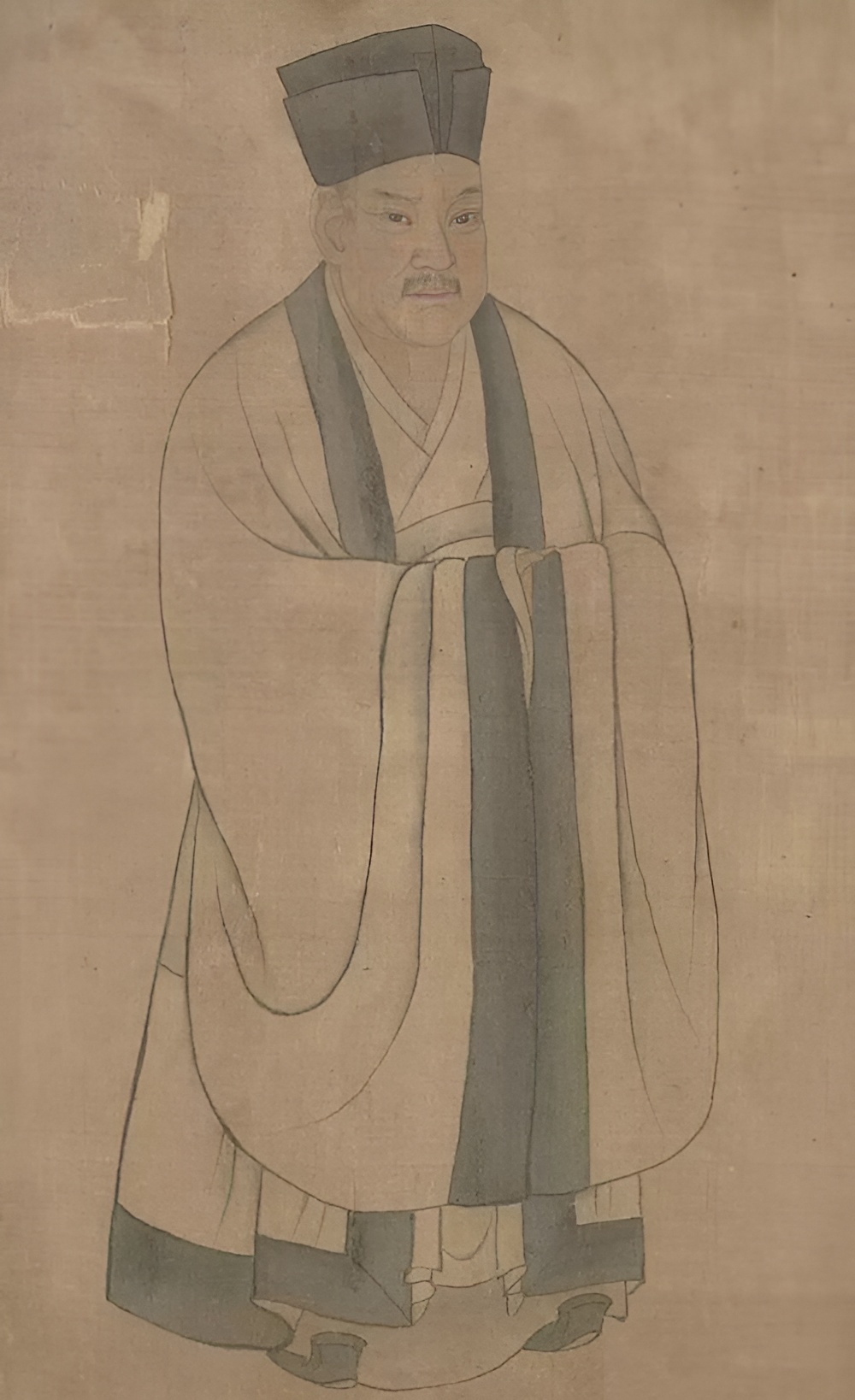 Qin Hui or Qin Kuai, grand chancellor, hanjian of the Song Dynasty.